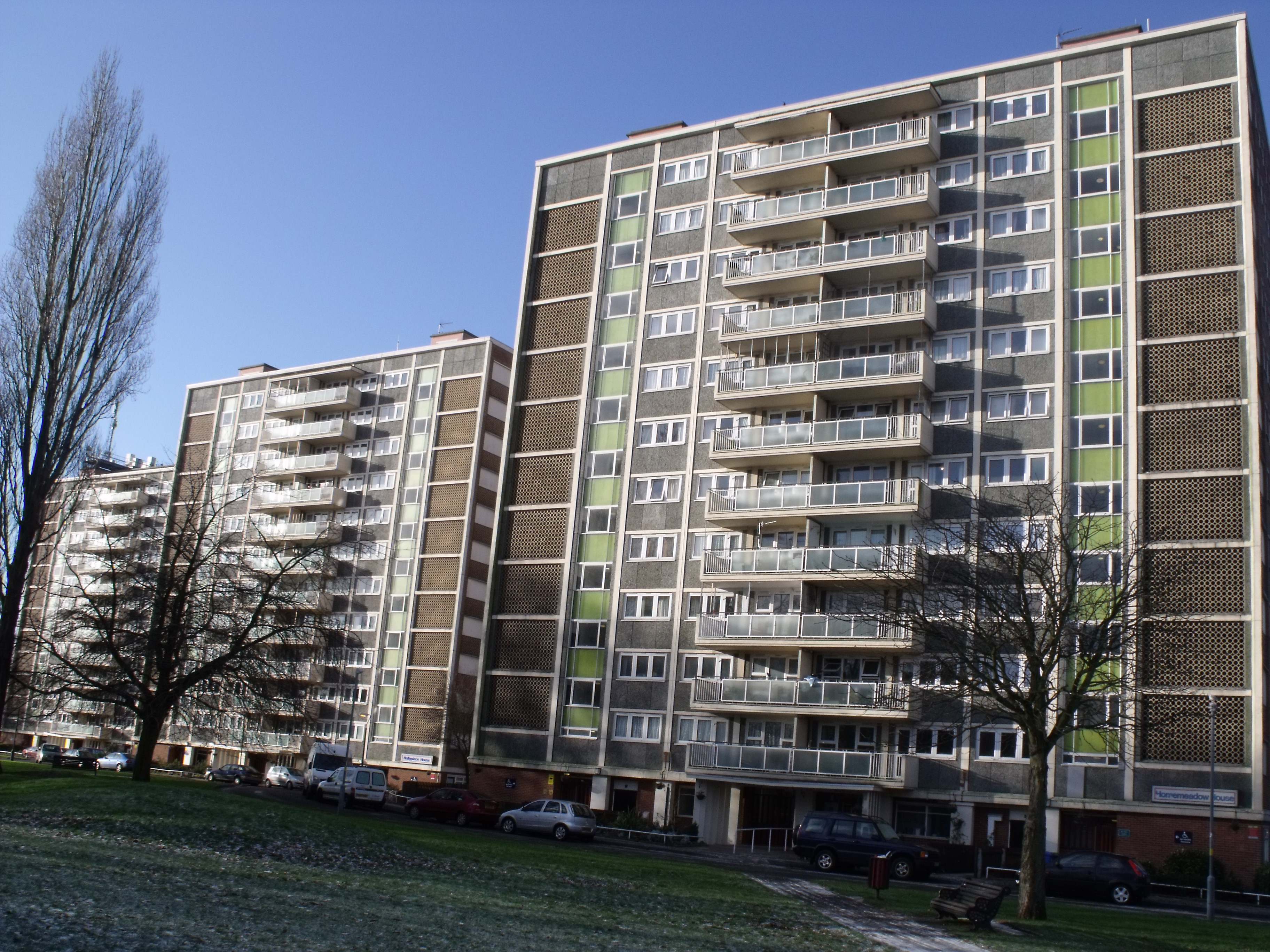 On this site off the Fox Hollies Road in Hall Green stood a grand manor house called The Hollies. The three tower blocks were built in 1965.